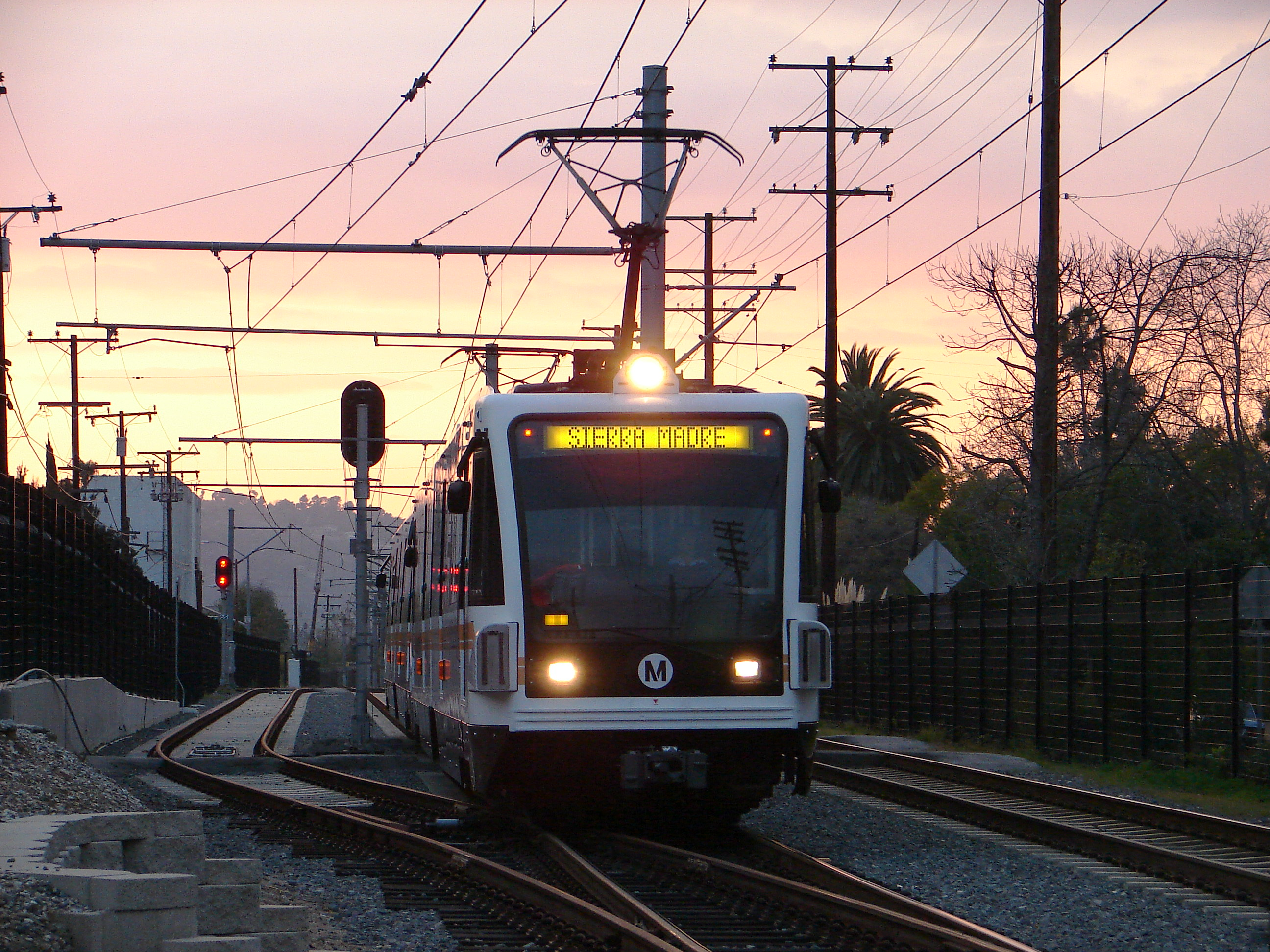 LACMTA Gold Line in the Arroyo Seco - at South Pasadena. photos and descriptions - of South Pasadena Photographer SALAAM ALLAH